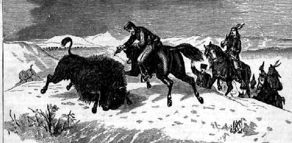 Grand Duke Alexei Alexandrovitch of Russia killing a buffalo with a pistol shot, during the big buffalo hunt in Red Willow Valley, Nebraska